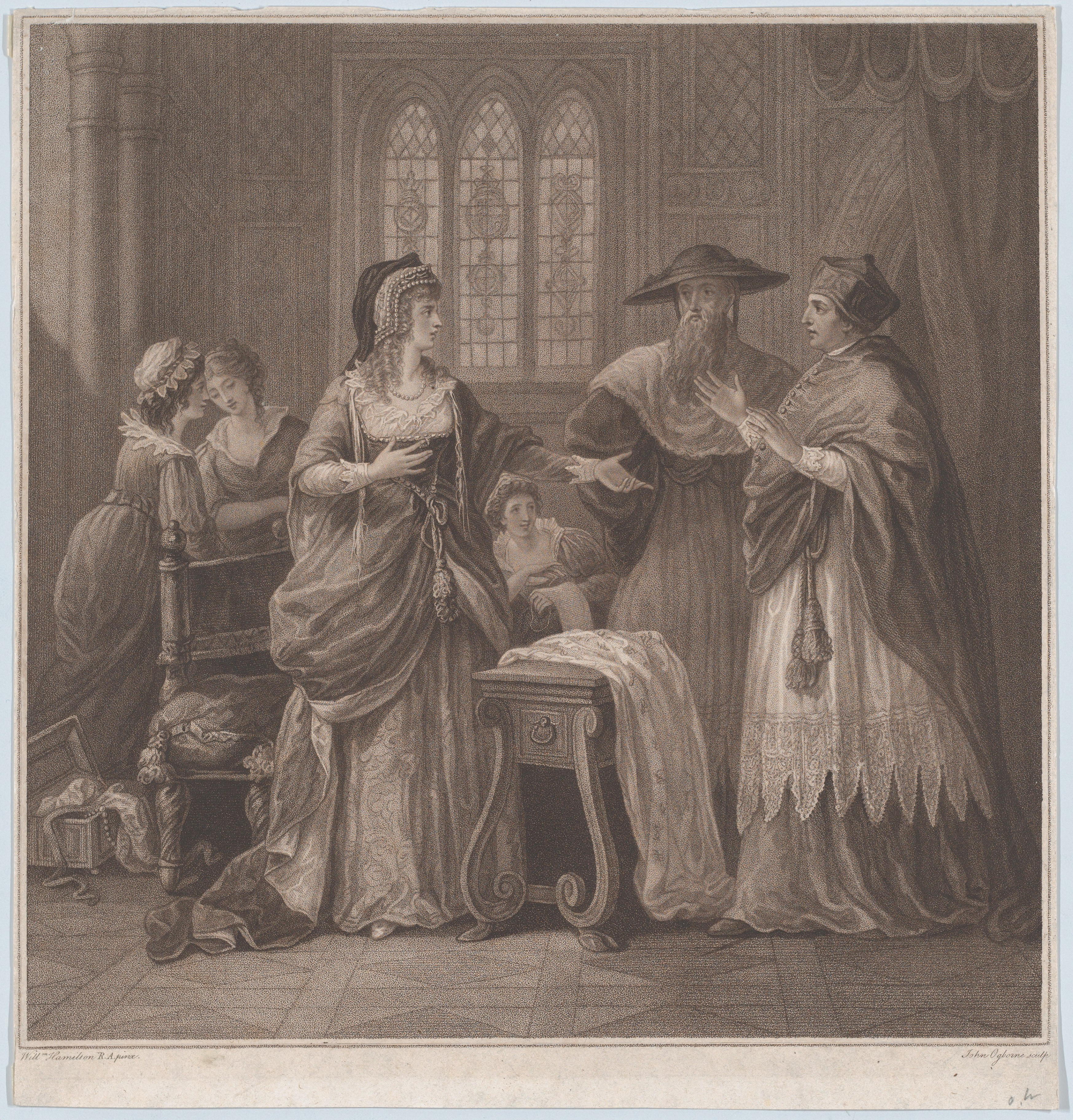 Print; Prints